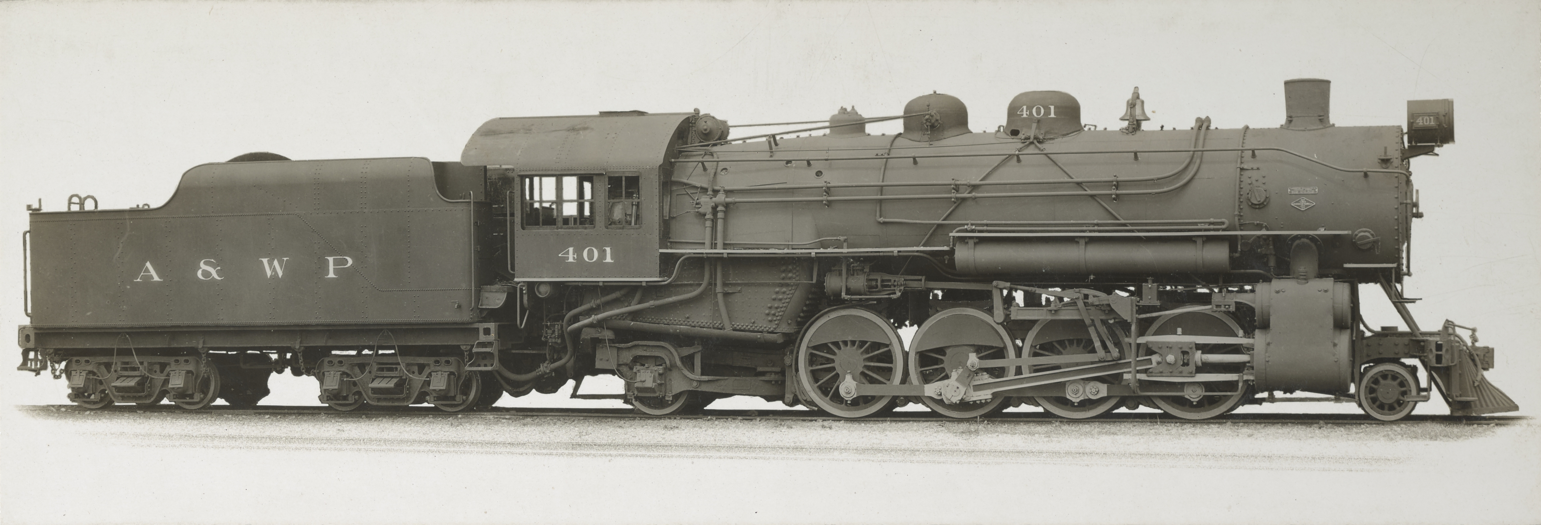 Lima Locomotive Works builder's photo of a Atlanta and West Point 2-8-2 locomotive in 1918.